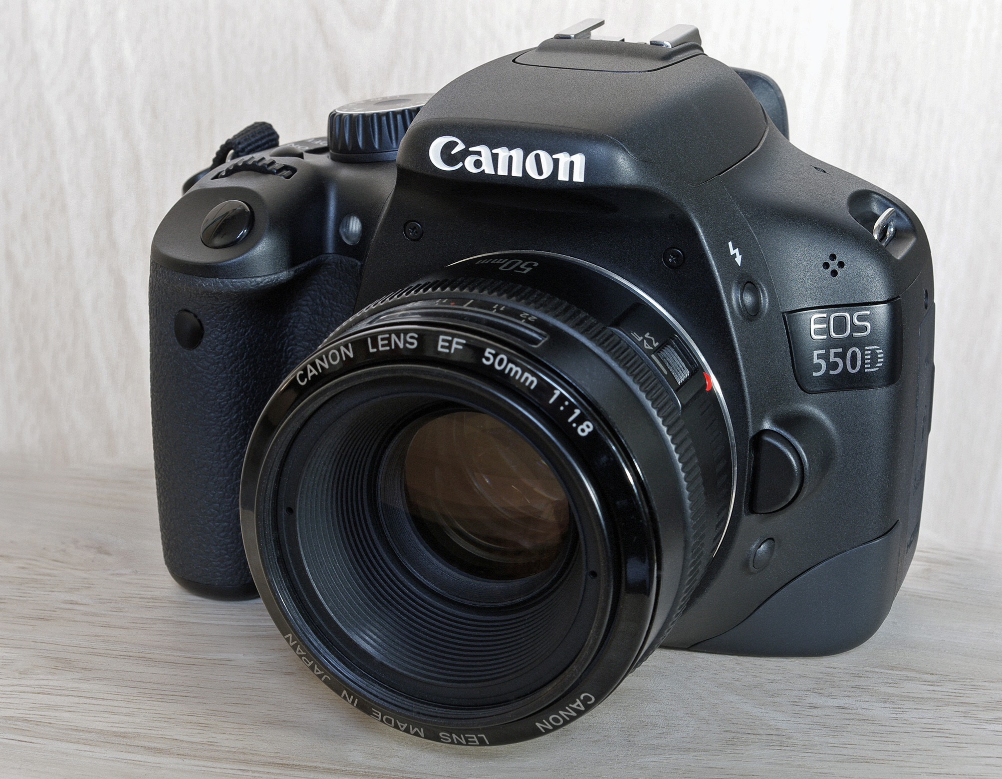 The digital SLR camera Canon EOS 550D (= EOS Rebel T2i / EOS Kiss X4) with mounted lens Canon EF 50mm / 1:1.8 Mk I.